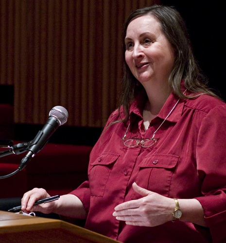 Christine Korsgaard gives the Amherst Lecture in Philosophy, April 8, 2010.